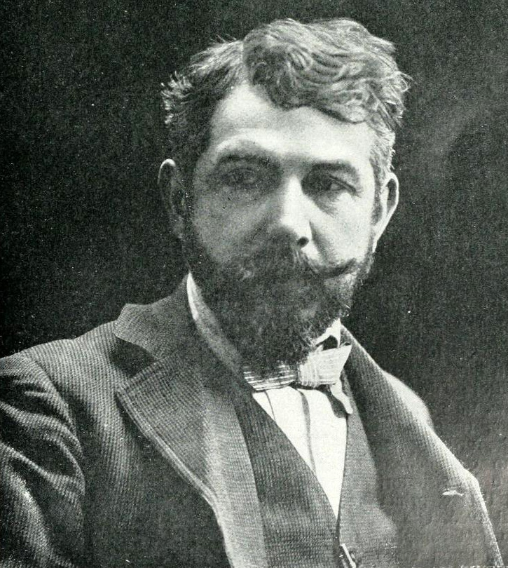 Description: Photograph of Ettore Tito (1859 – 1941) Date: circa 1919 Photographer: Unknown Published in: Emporium, Volume: 49 No. 10, p. 139, Bergamo: Istituto italiano d'arti grafiche Publication date: 1919